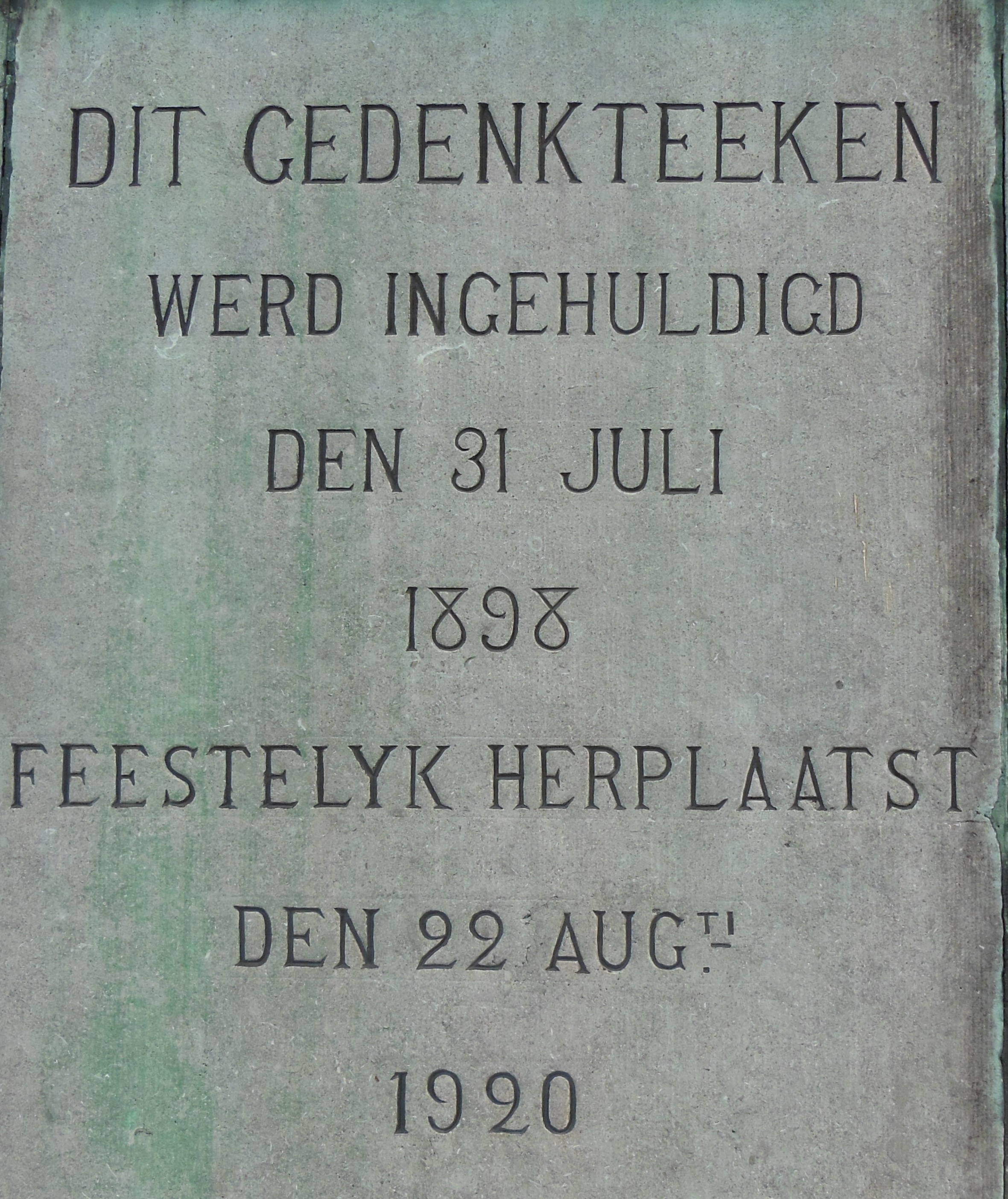 Inscription on the socle of the monument. This monument was inaugurated 1898, July, 31st and festively reinstalled 1920, august, 22nd.